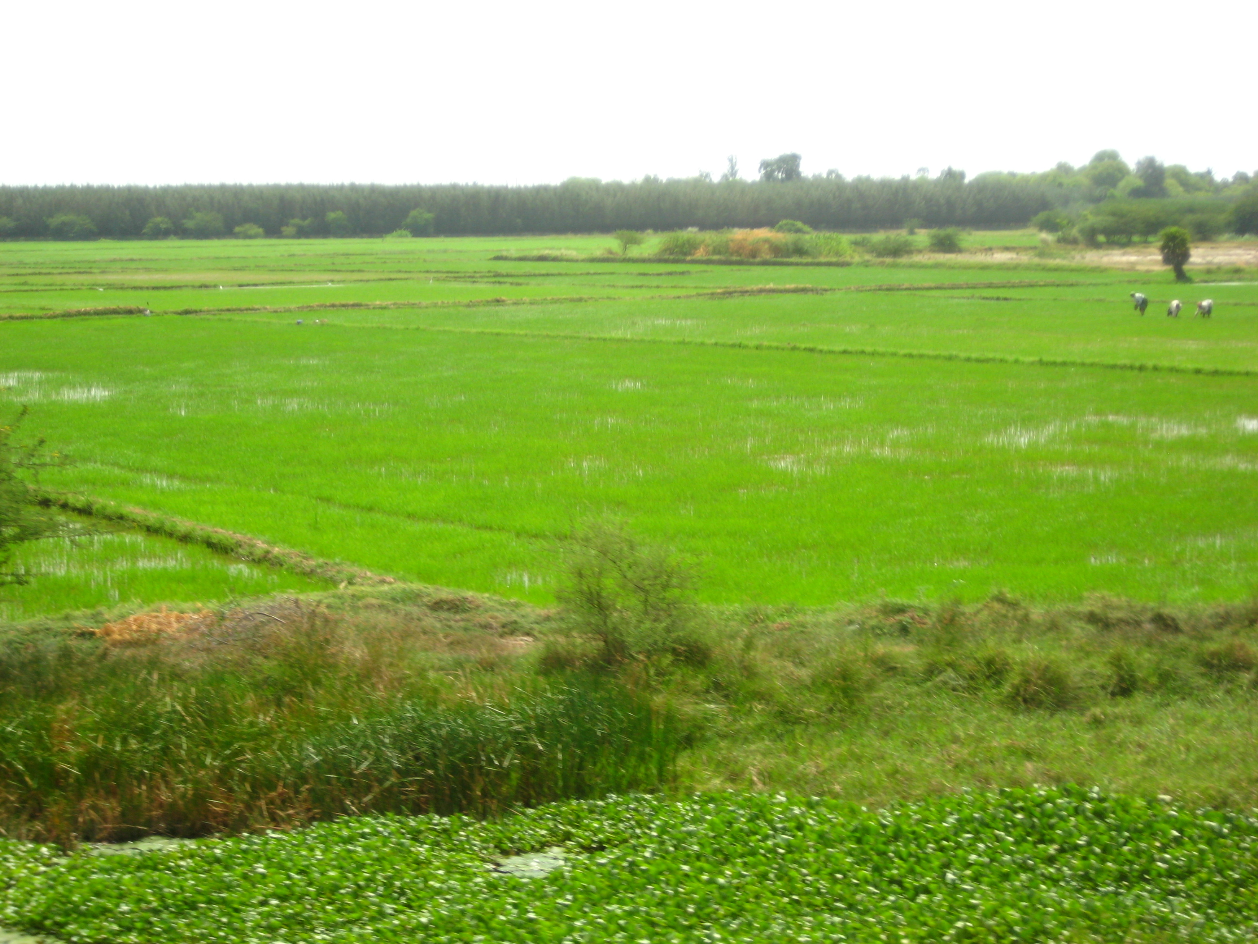 Paddy fields between Pondicherry and Chidambaram (Cuddalore district, Tamil Nadu, India).